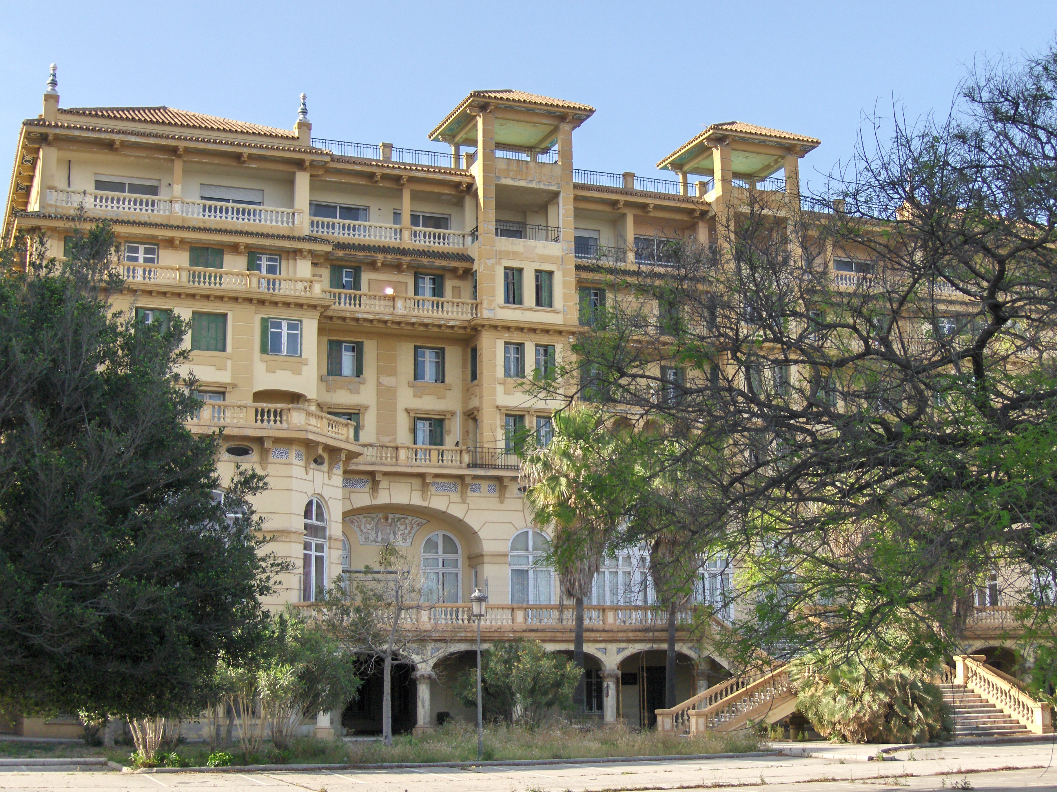 Palacio de Miramar, Málaga, Spain